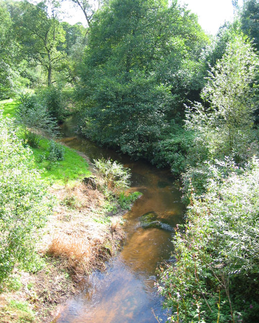 Forge Brook and Mill Covert. A pleasant small brook lined with willows, within earshot of the A51. View from bridge on Mill Lane